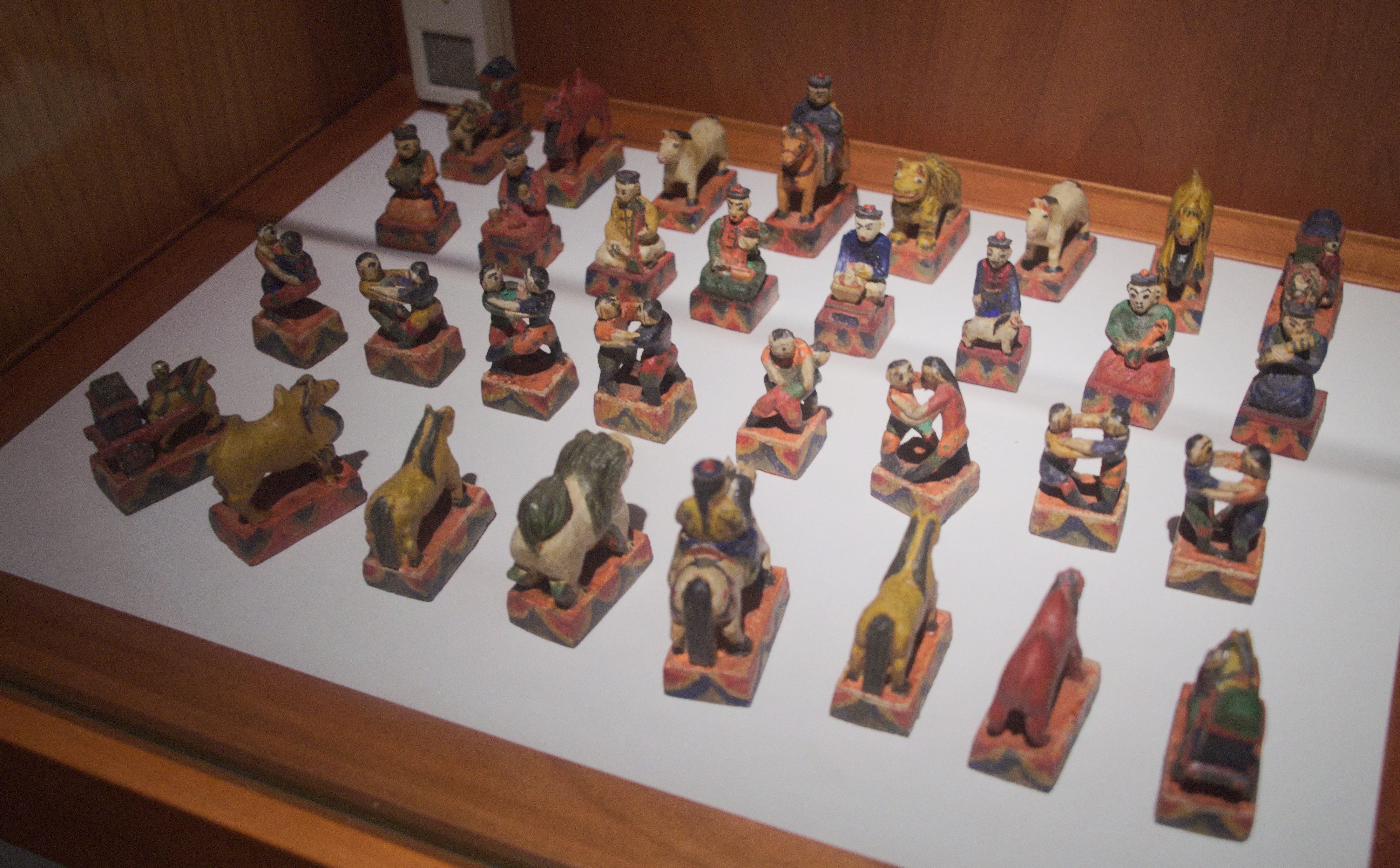 Shatar (Mongol chess) pieces at National Museum of Denmark in Copnehagen, Danemark.